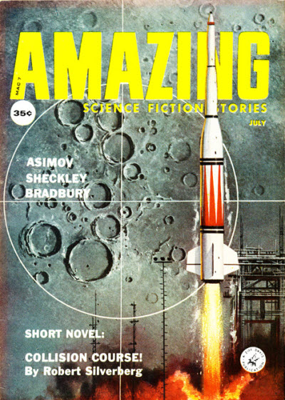 Cover of Amazing Stories, December 1959